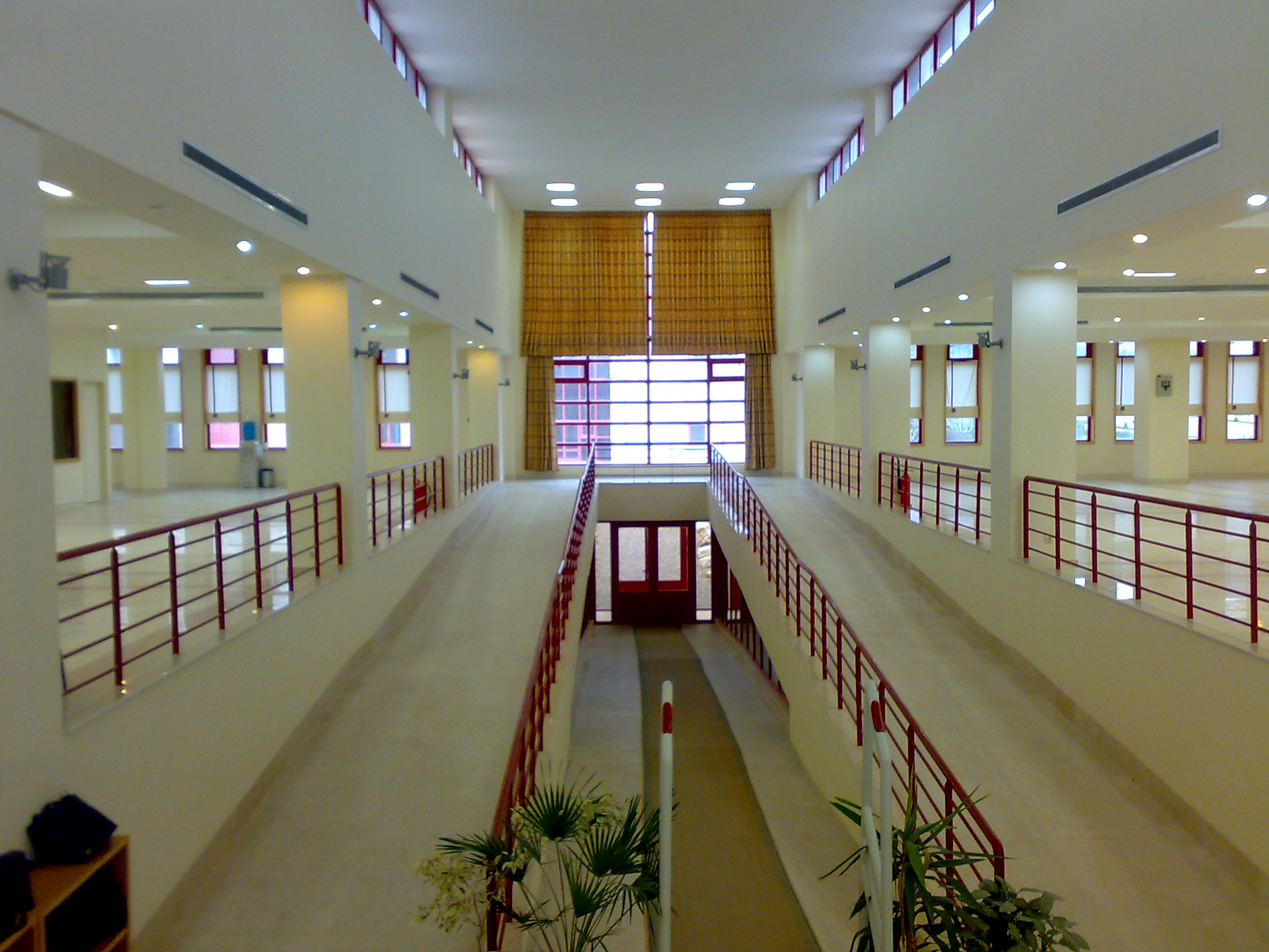 Institute for Advanced Studies in Basic Sciences in Zanjan(IASBS) ,مرکز تحصیلات تکمیلی در علوم پایه